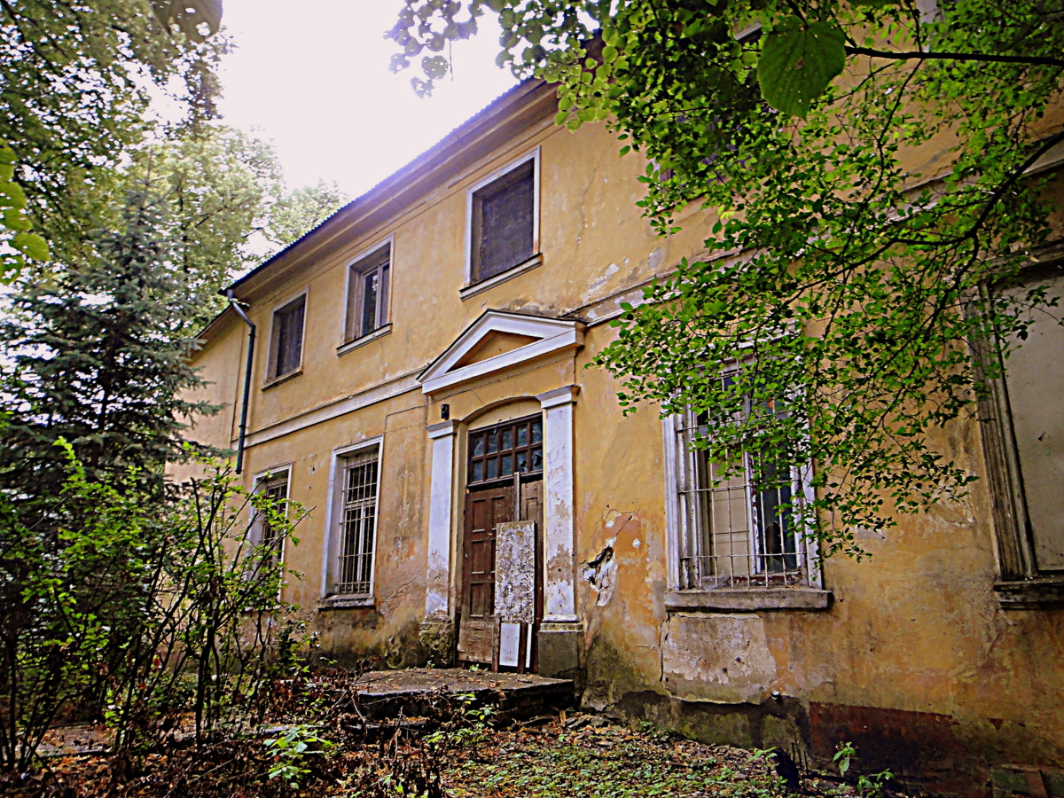 The last days of the Ebelshof